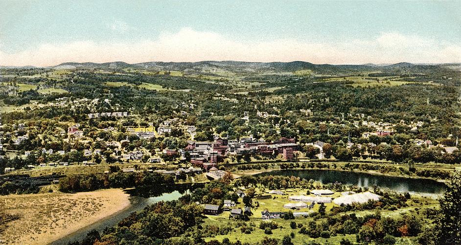 Bird's-eye view of Brattleboro, Vermont, looking west from Hinsdale, N.H.; from a 1905 postcard published by the Detroit Photographic Company.